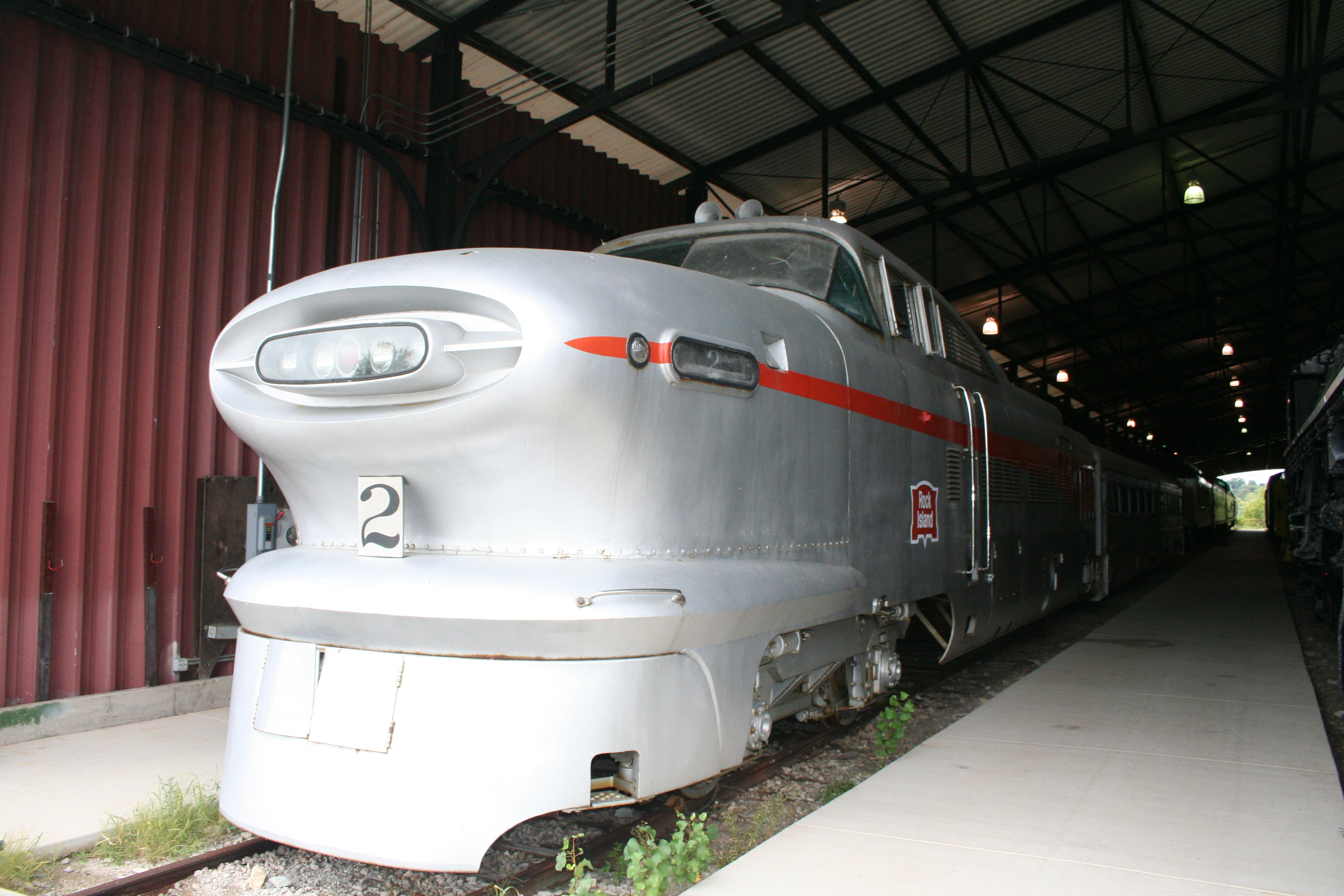 Chicago, Rock Island and Pacific Railroad General Motors "Aerotrain" - Trainset No. 2 Victor McCormick Train Pavilion, National Railroad Museum, Green Bay, WI